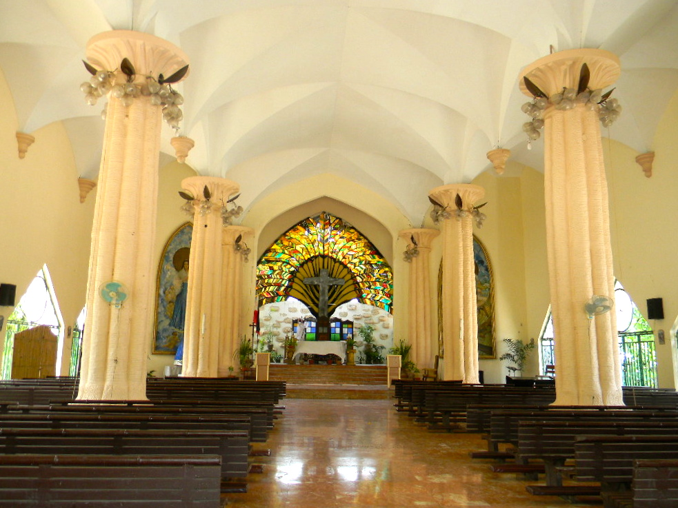 Entering Aglipay's Shrine makes one wonder what is its difference over other Roman Catholic Churches in the country, but it won't take you long to notice that everything is "Filipinized". Instead of seeing Mary, one would see a Maria Clara looking image. Instead of seeing the image of the Pope, one would see the image of Fr. Gregorio Aglipay.